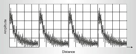 I (PraeceptorIP (talk) 01:17, 30 January 2009 (UTC)) am the creator of this graph. which in my opinion contains negligible authorship, but nonetheless I hereby agree to a Creative Commons Attribution-ShareAlike 1.0 License. The graph was created to illustrate Morse's invention in O’Reilly v. Morse.